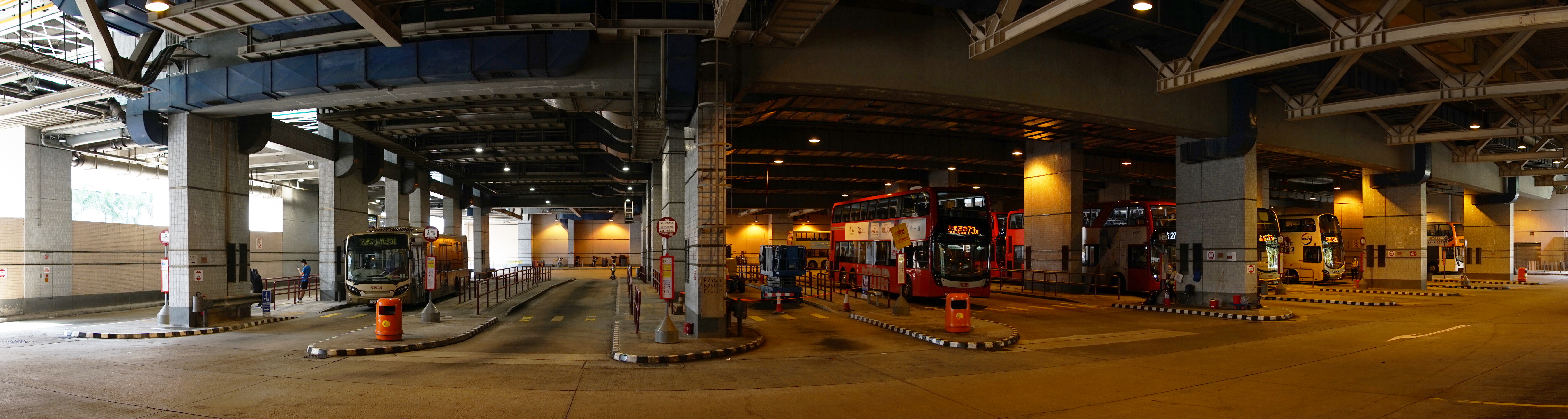 Tsuen Wan (Nina Tower) Bus Terminus, Hong Kong.